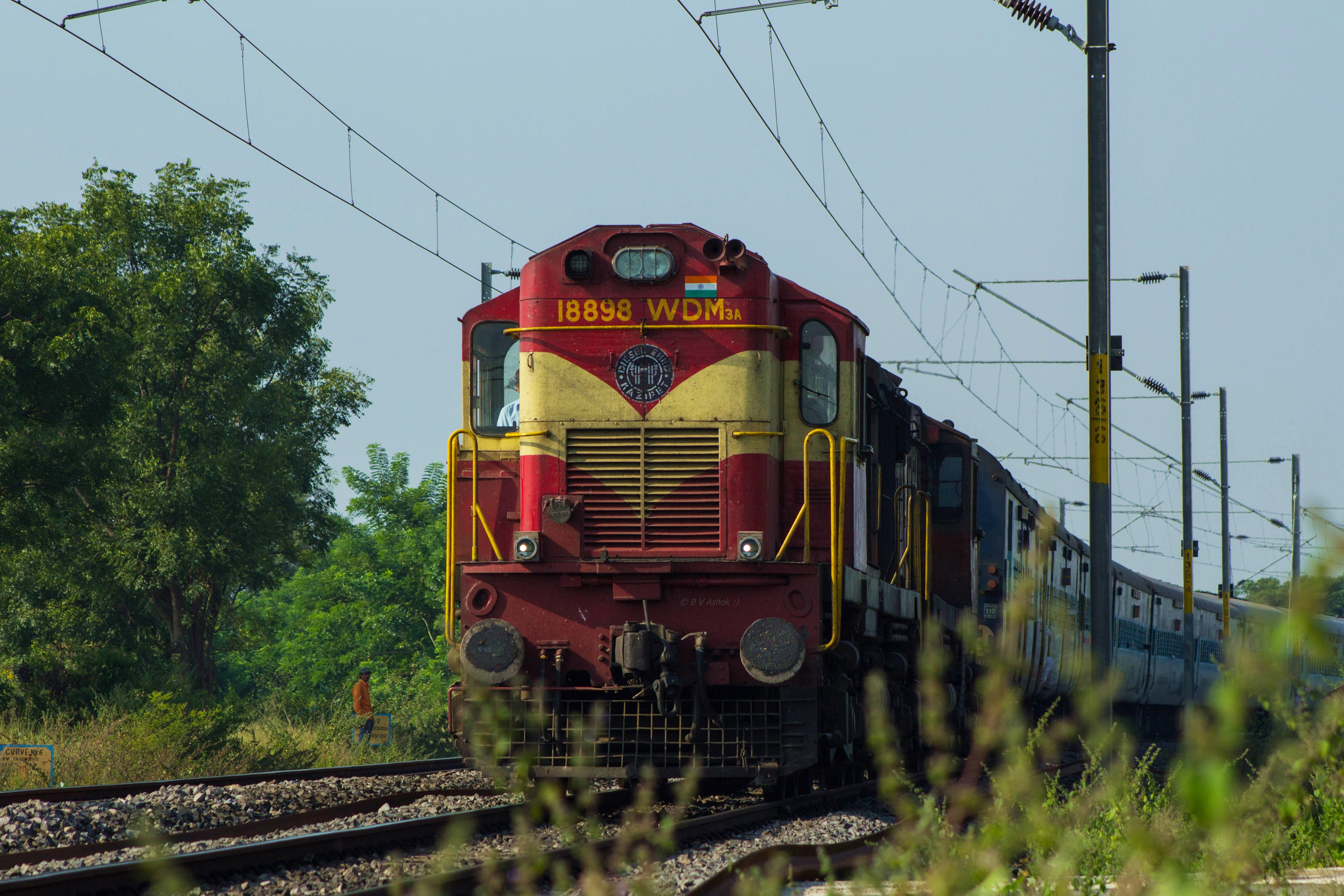 KZJ WDM-3A 18898 leads the twin charge on the curve for 17203 Bhavnagar Terminus - Kakinada Port Express...